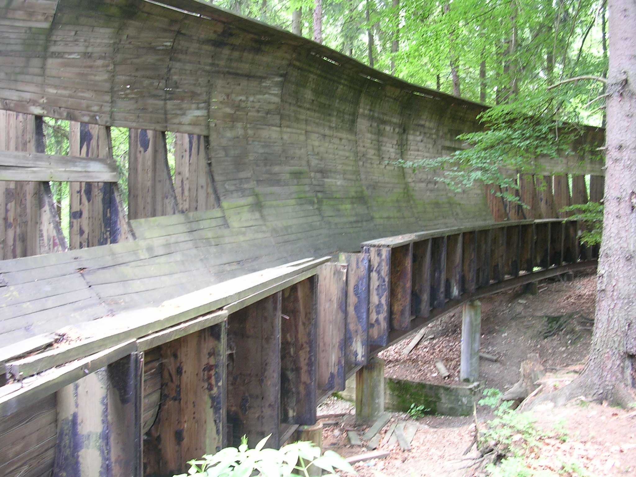 Ještěd. Chute toboggan.